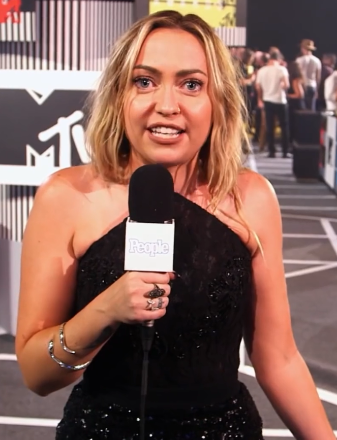 Brandi Cyrus at 2015 MTV Video Music Awards